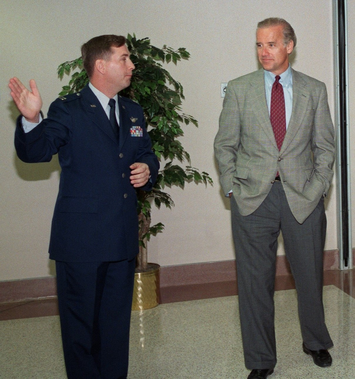 10/10/1997 - US Air Force Captain Andrew Molner, Commander of the new Passenger Terminal, 436th Aerial Port Squadron (APS), gives a tour to Senator Joseph Biden (D-DE), Representative Michael N. Castle (R-DE), US Air Force Colonel Felix Greider, Commander 436th Airlift Wing, Dover Air Force Base, Delaware, and US Air Force Brigadier General William Wellser, Commander Air Mobility Warfare Center, Fort Dix, New Jersey, pointing out the updated renovations to the new Passenger Terminal at Dover Air Force Base, Delaware